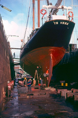 The stay-sail schooner Te Vega (which was renamed several times in its history), which was at one point a training ship of the Flint School.